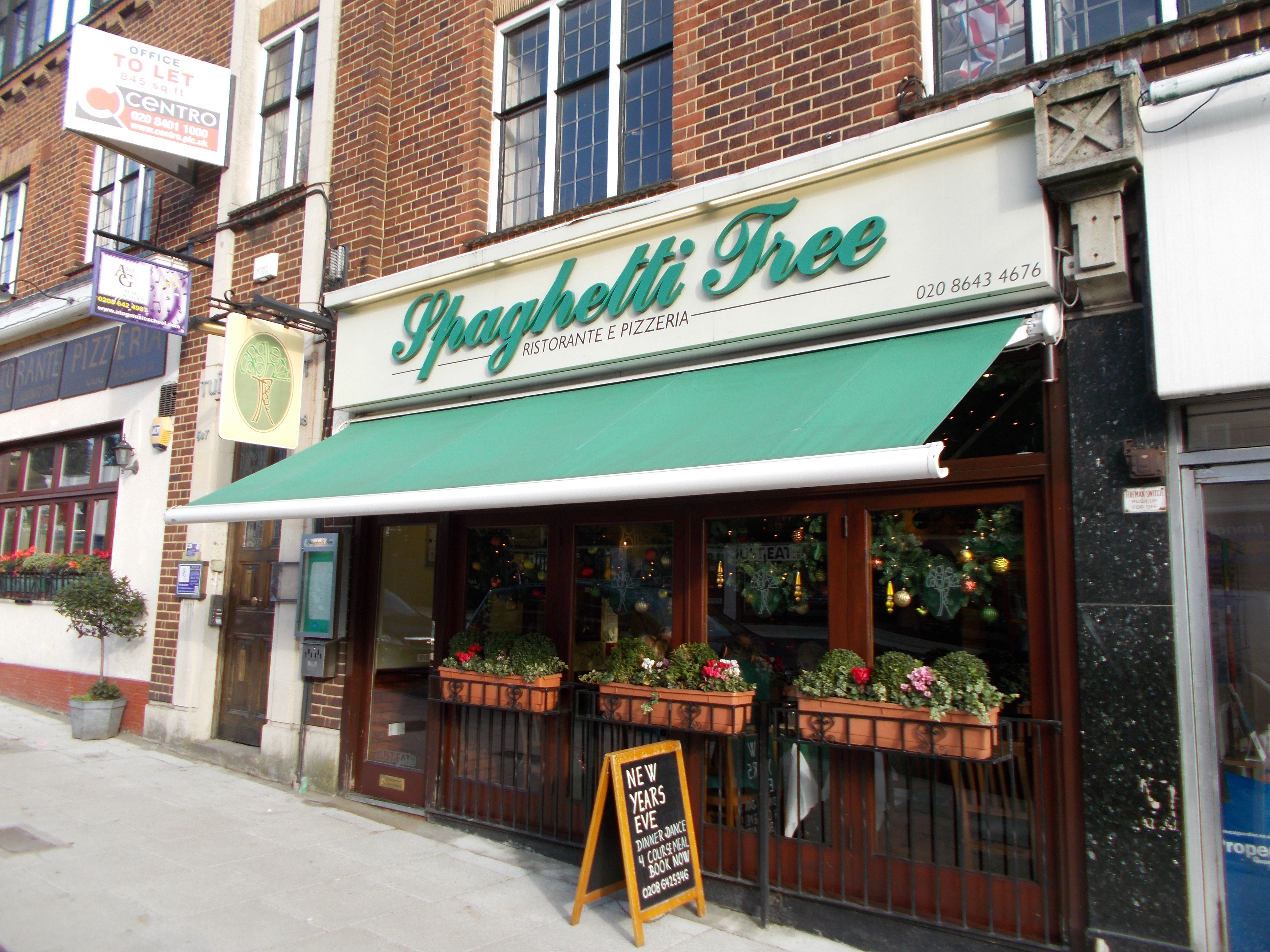 Spaghetti Tree, Sutton, Surrey, Greater London